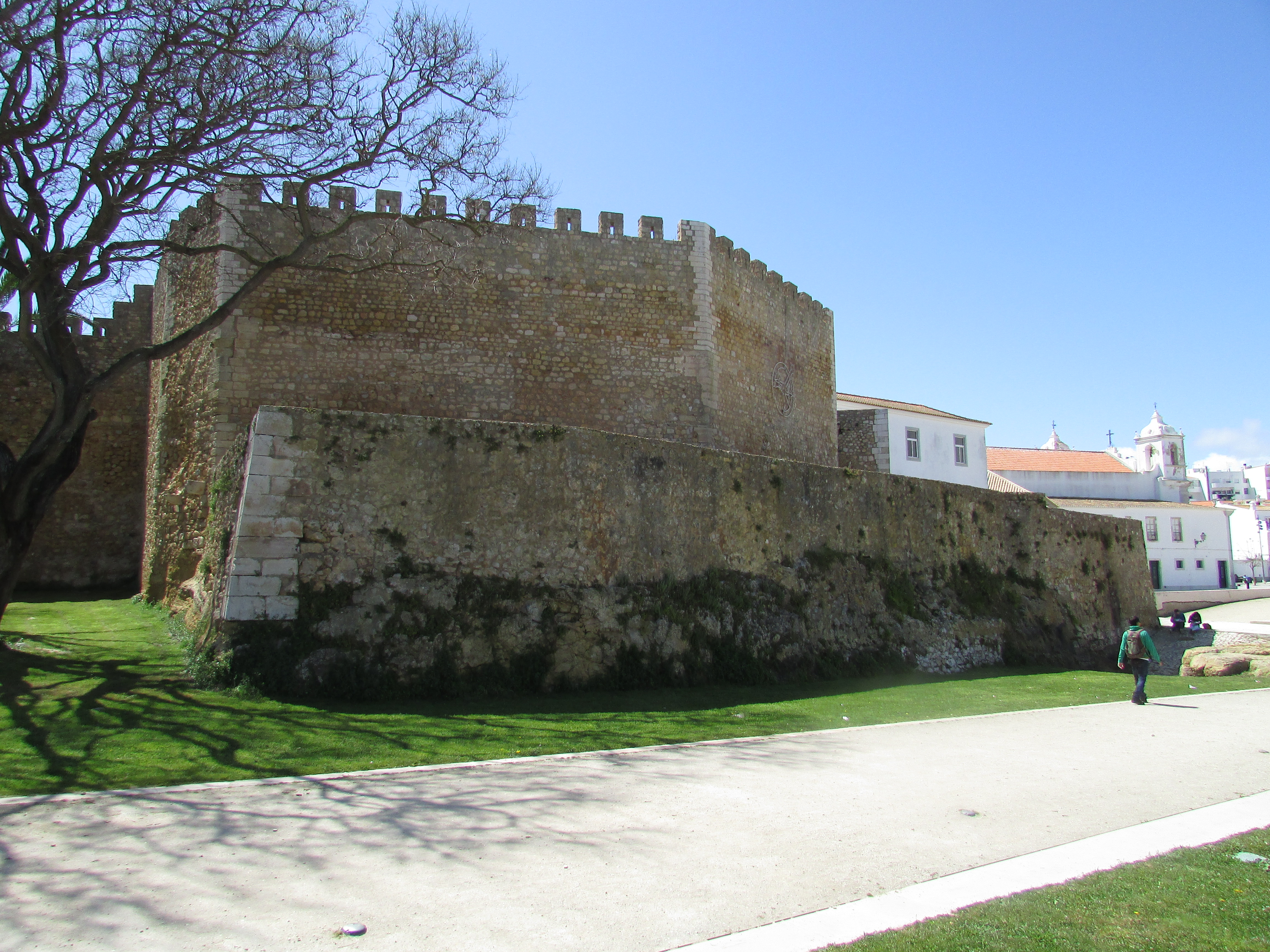 Looking from the Jardim da Constituição at a section of the old city wall, Lagos Castle (Castelo de Lagos) within the city of Lagos, Algarve, Portugal.